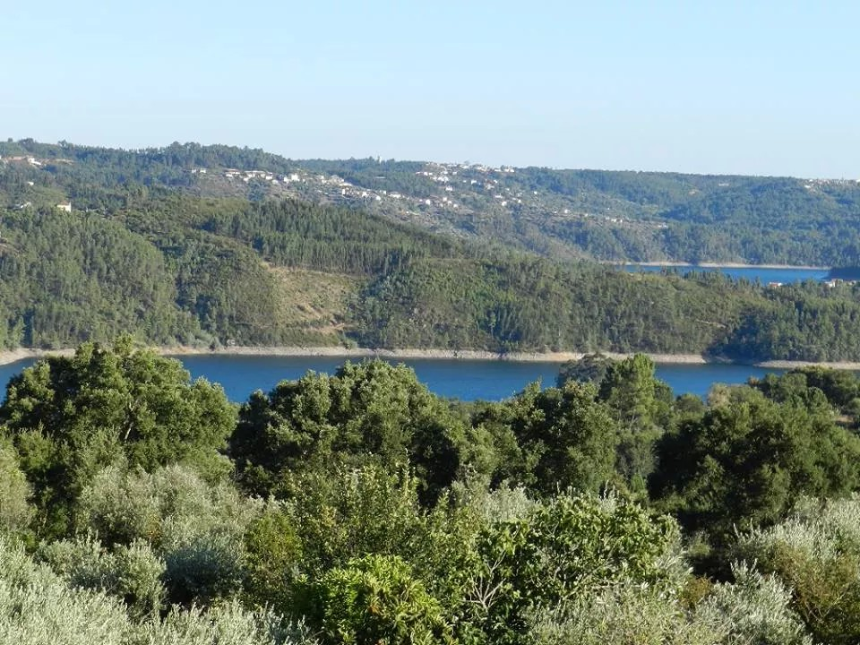 Sight of Montes - Portugal to the River Zêzere.